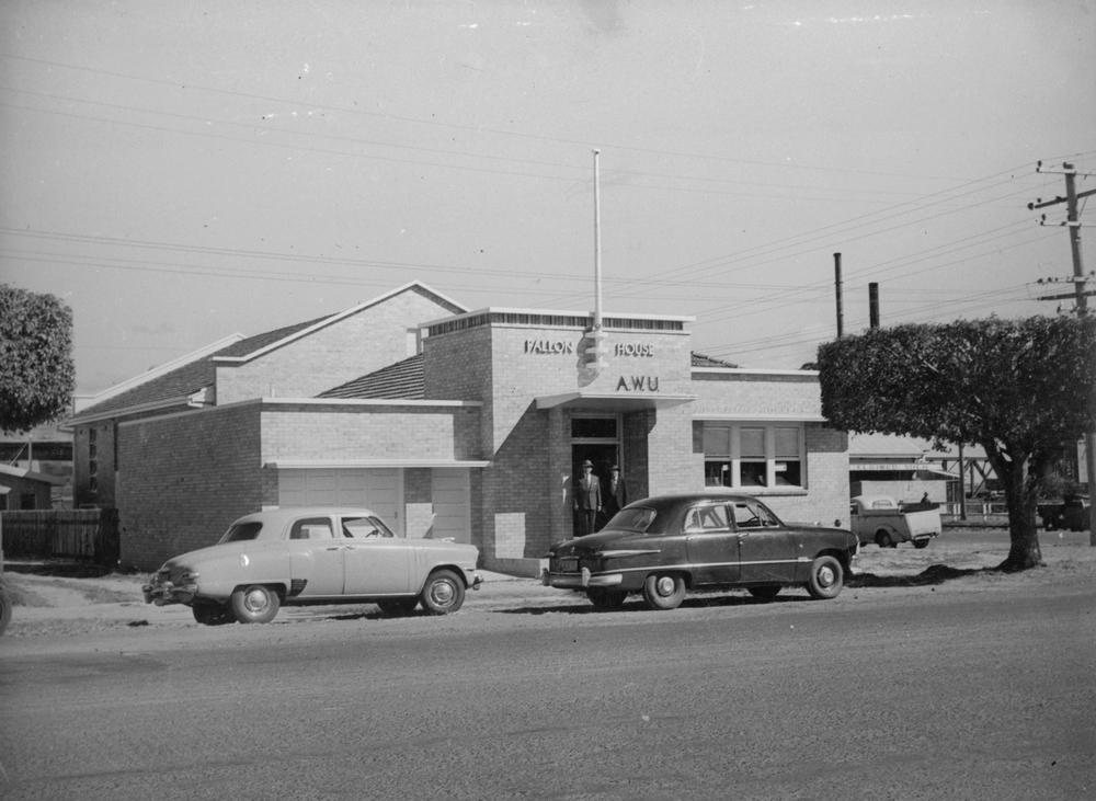 Fallon House in Bundaberg, 1953 Australian Workers Union building, named in memory of A.W.U. leader Clarrie Fallon. The building was erected in 1953. (Description supplied with photograph.).